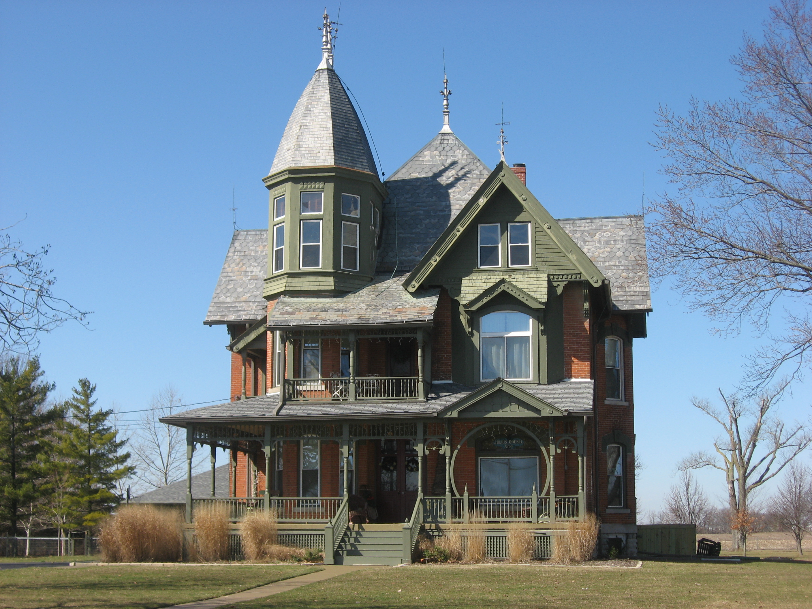 Front of the Julius Boesel House, located on the western side of New Bremen-New Knoxville Road north of New Bremen in German Township, Auglaize County, Ohio, United States. Built in 1895, it is listed on the National Register of Historic Places.